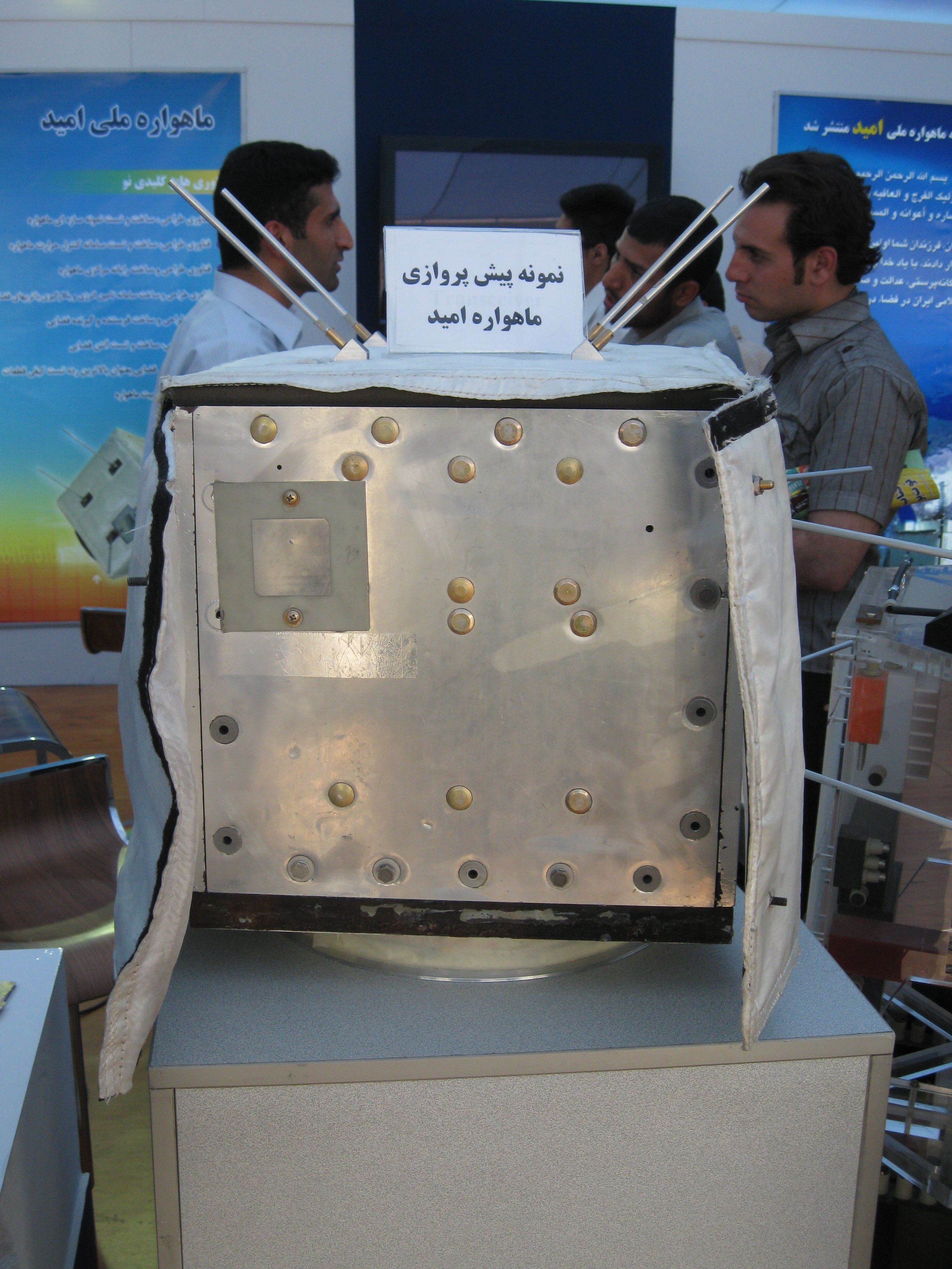 Omid [was Iran's first domestically made satellite Described as a data-processing satellite for research and telecommunications, Iran's state television reported that it was successfully launched on February 2, 2009